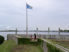 Photo by Matthew A. Lynn